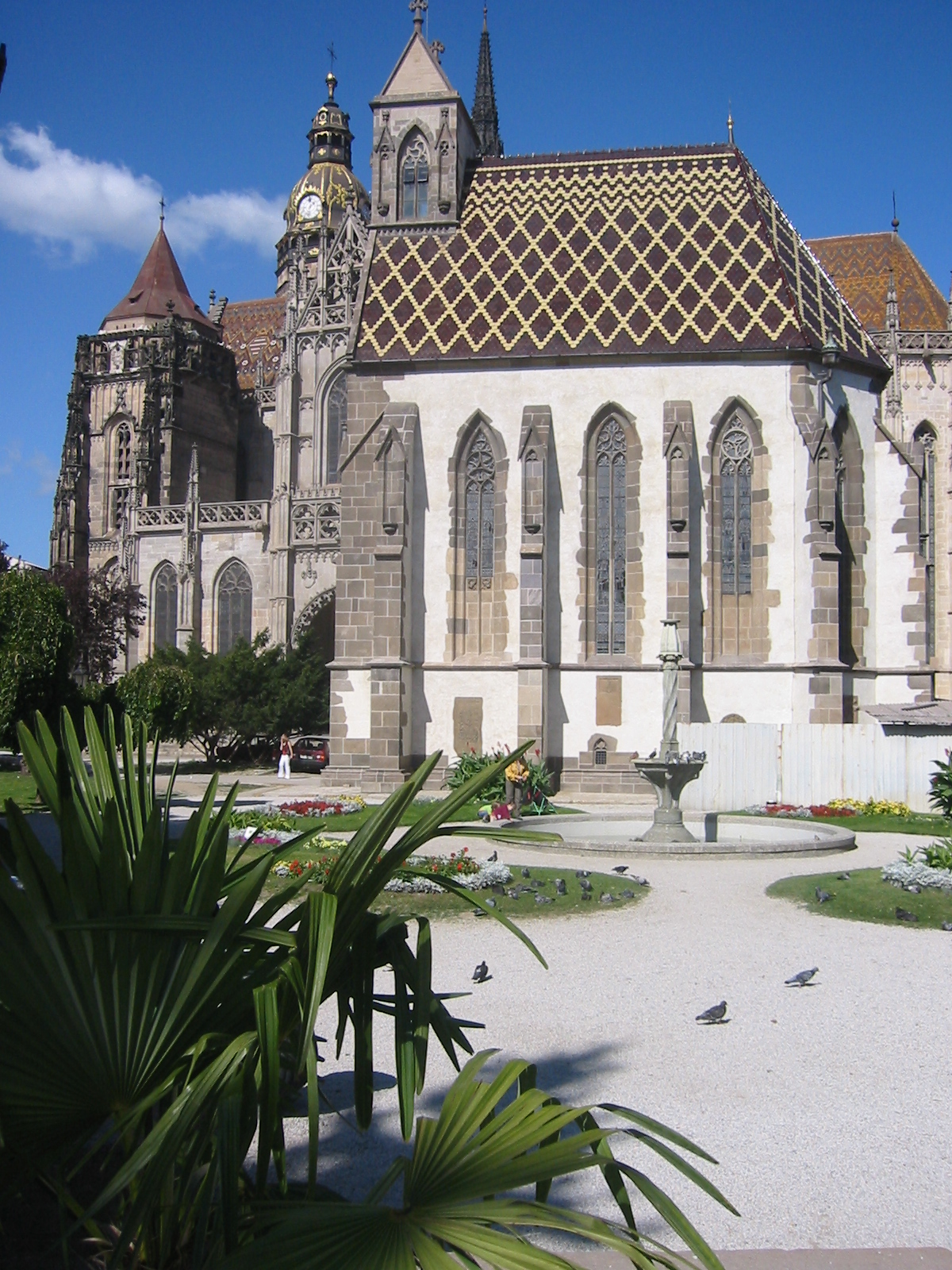 Kosice, Slovakia - St. Elisabeth Cathedral - Outside